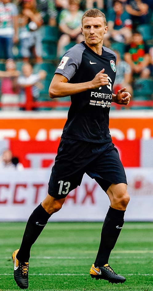 Vitali Shakhov with FC Tosno in a game against FC Lokomotiv Moscow.